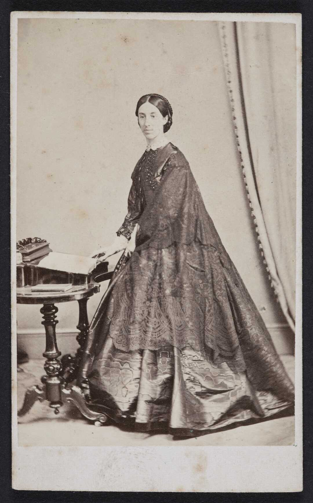 Photographic portrait of Mrs Stanley Jones (also known as Emma Buchanan, or Mrs Emma Jones)